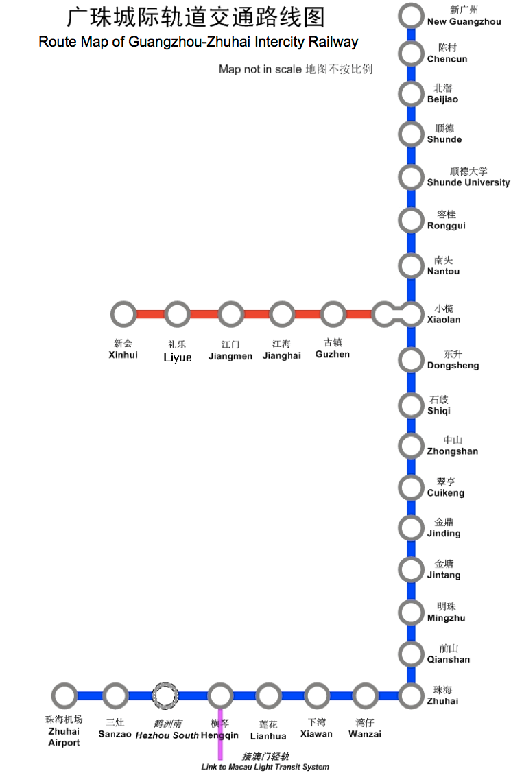 Route map of Guangzhou-Zhuhai Intercity Mass Rapid Transit